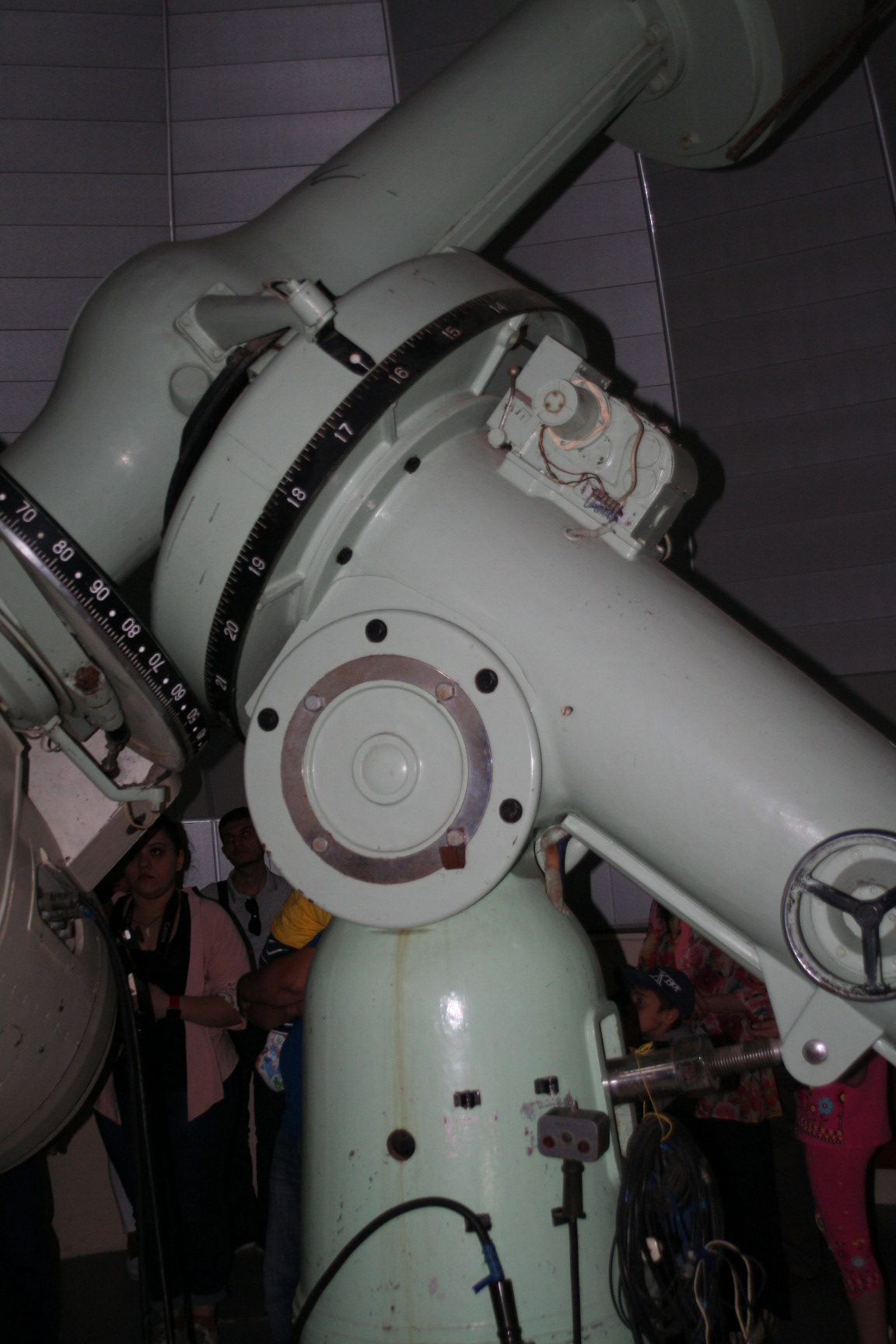 Shamakhi Astrophysical Observatory